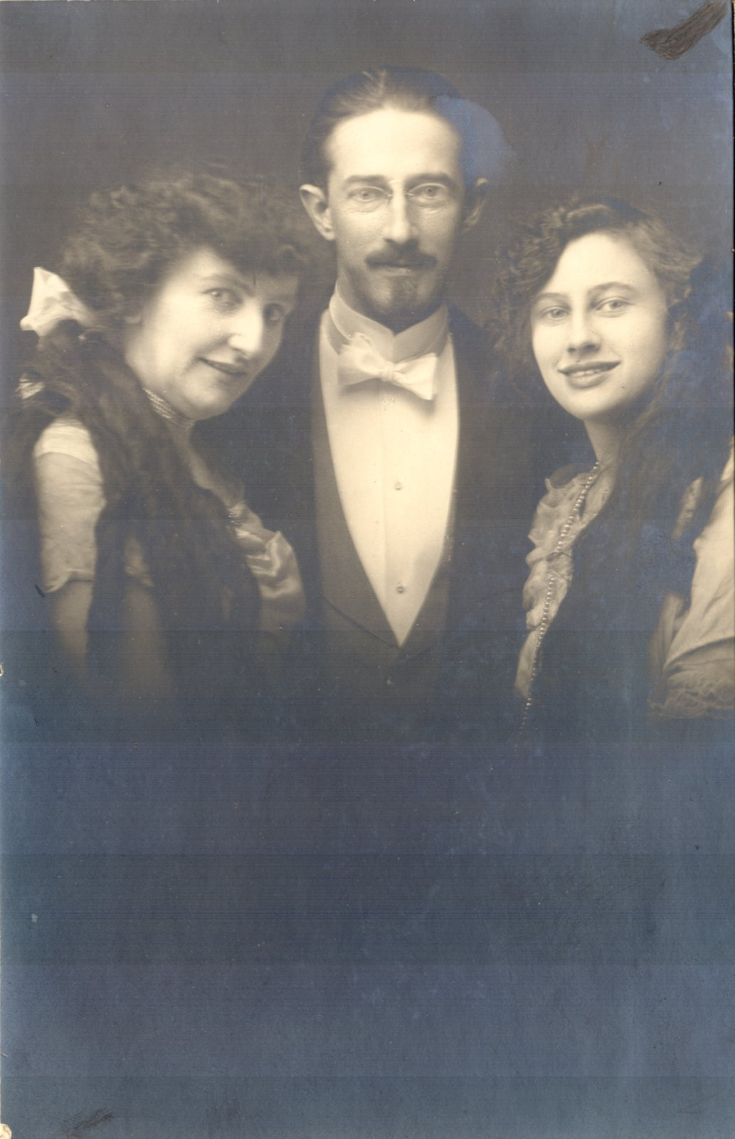 Portrait of Charles F. Thiele with his wife, Louise at left and his daughter Caroline at right.